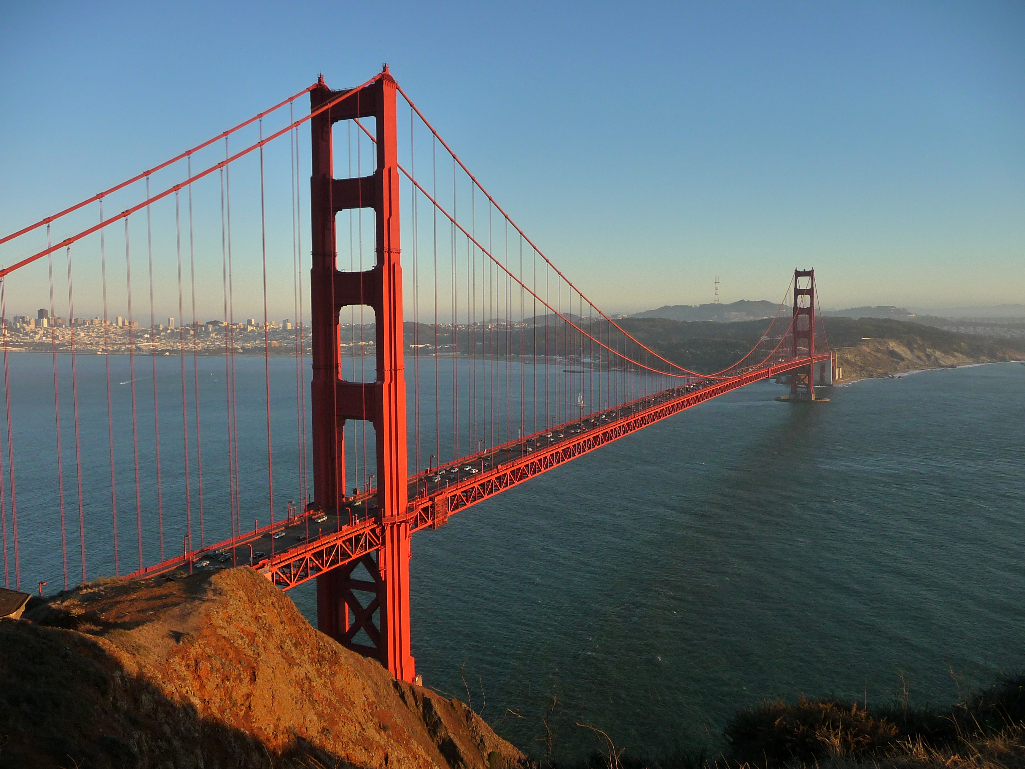 Golden Gate Bridge in the evening sun